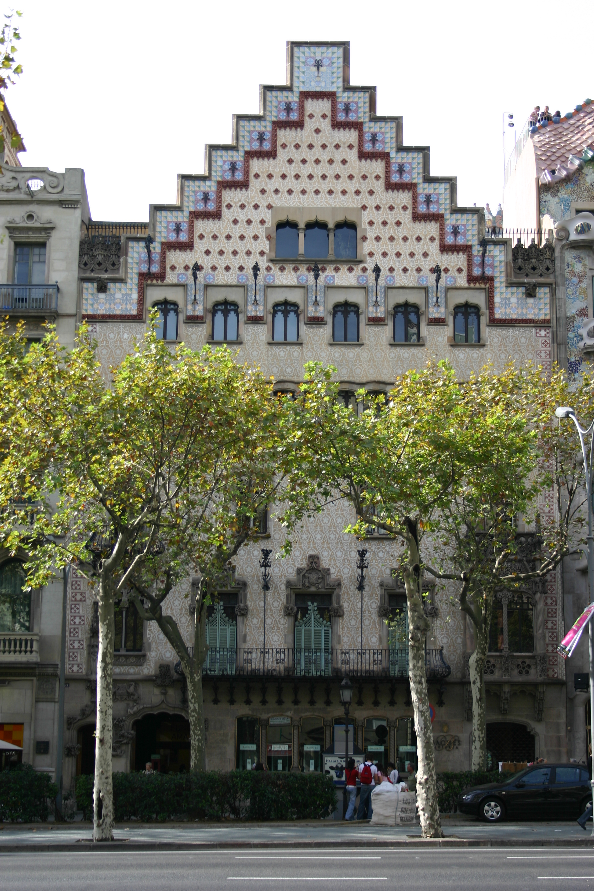 Casa Amatller by architect Josep Puig i Cadafalch, Barcelona